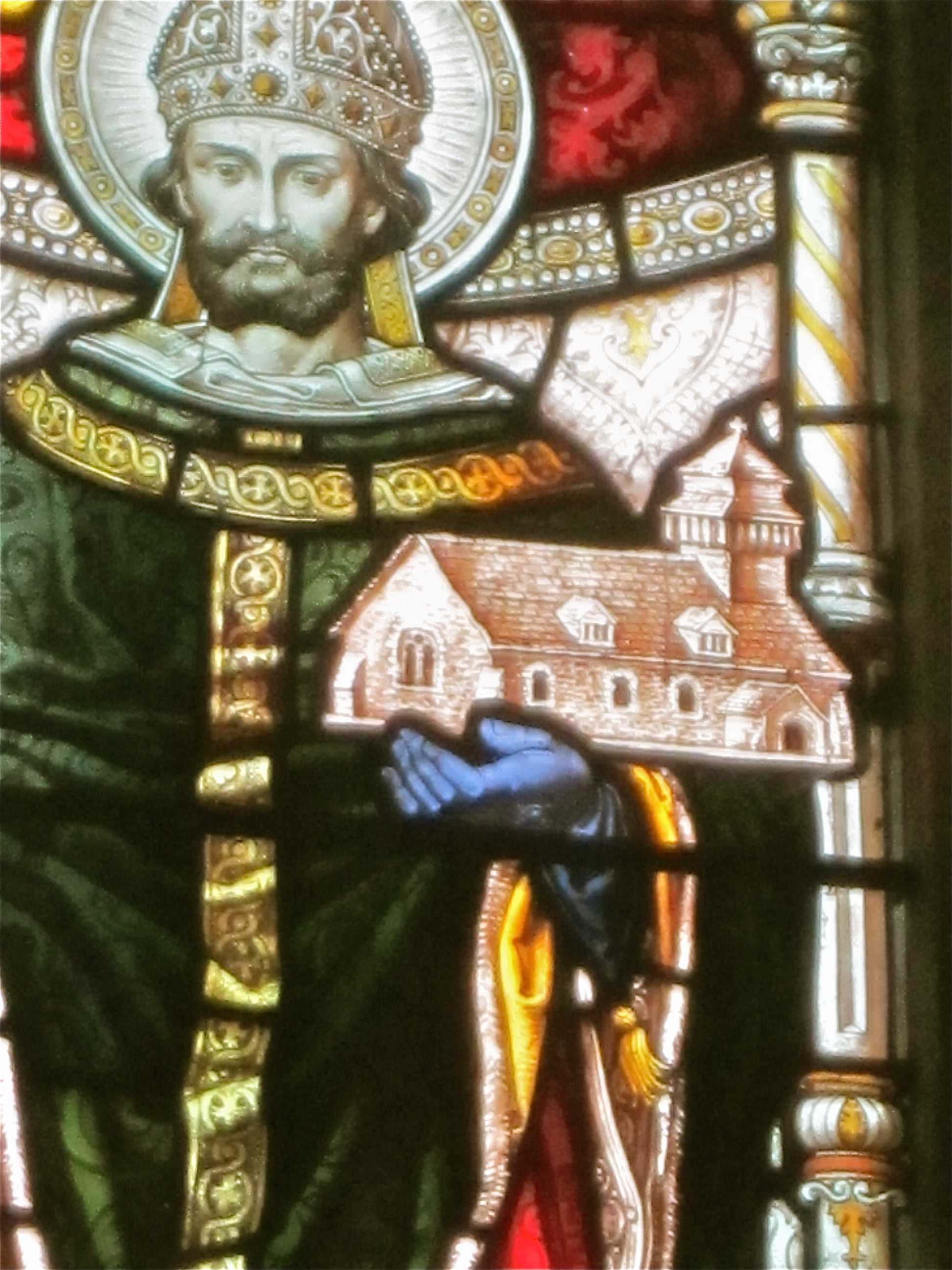 St Tyssul depicted in a window in Montgomery Church